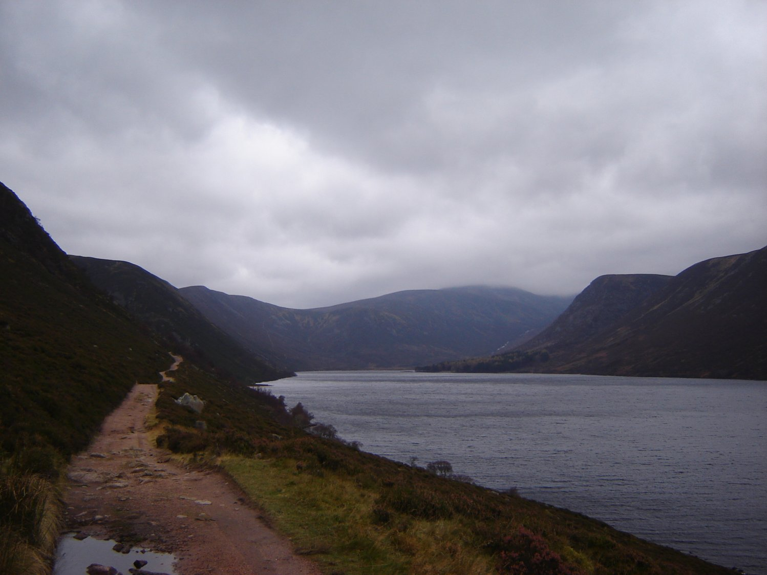 Loch Muick from about halfway down the eastern shore, below Craig Bhiorach, looking due west. Camera location is 56.929 degrees north, 3.16 degrees west. The Allt an Dubh loch is just visible at the far end of the loch.